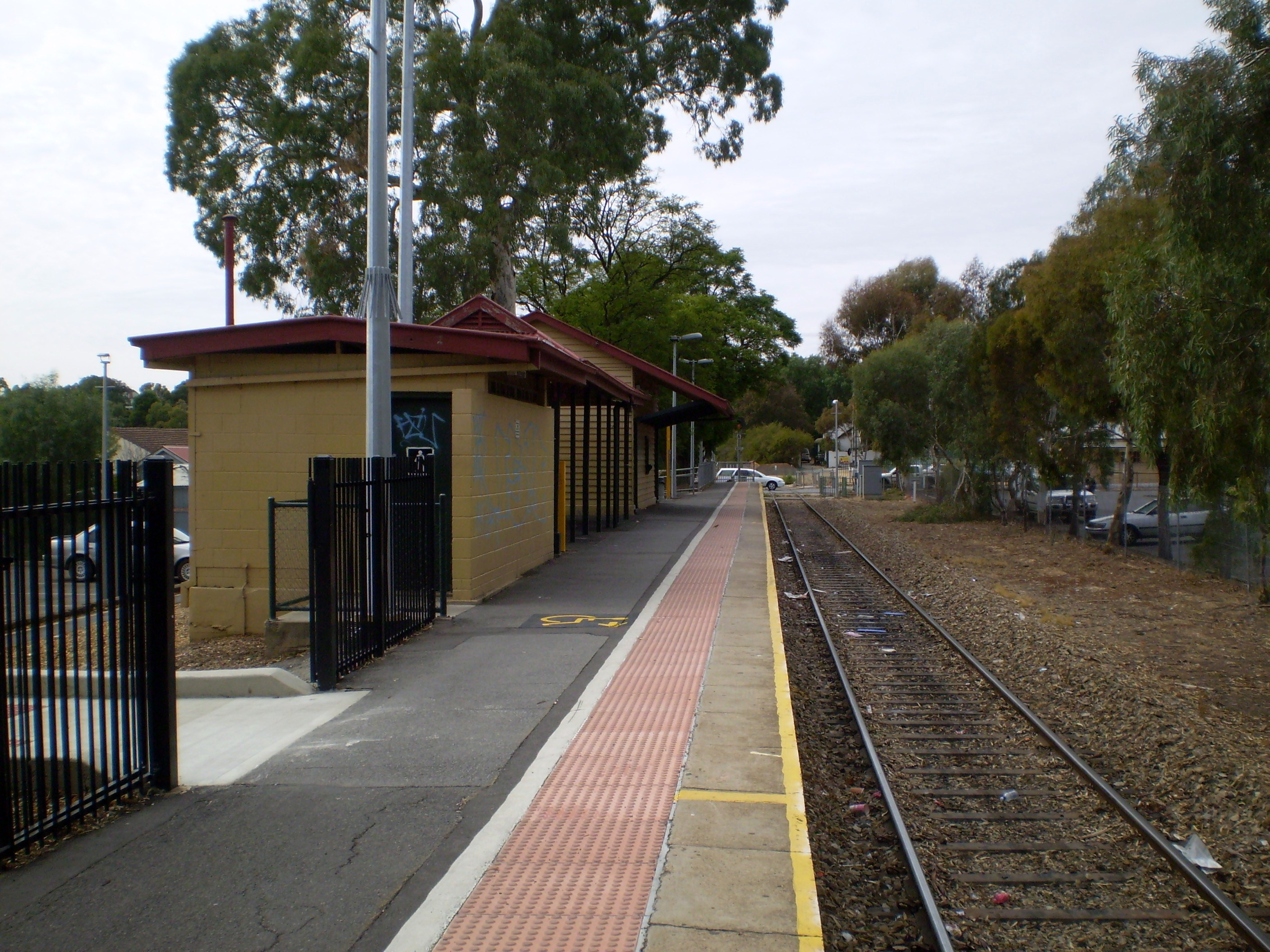 Gawler Central Railway Station in April 2008.